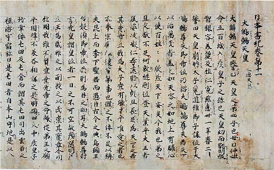 The Chronicles of Japan (日本書紀, Nihon Shoki), Maeda edition; beginning of the 11th scroll